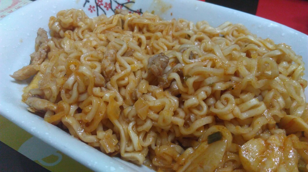 frying instant noodles